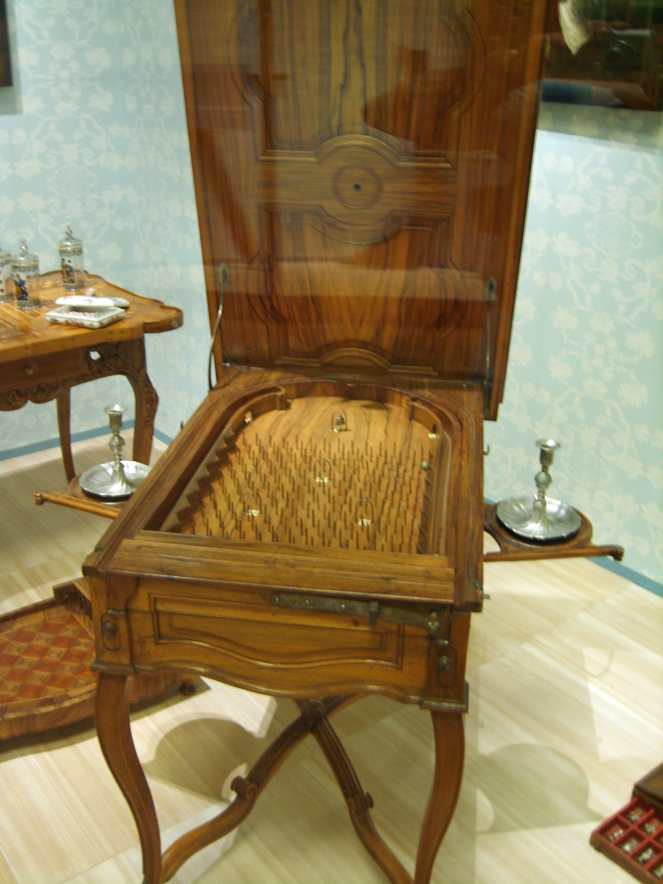 Game table with three ball games. Southern Germany/Alsace, ca. 1750-1770. Walnut, rosewood, and other woods. The table contains a table billiards game in the opened lid. In the actual body a Japanese billiards game, an early form of flippers (already with a spring mechanism for shooting the ball). A removable cannon game with seven cannons. From the permanent collection of the German Historical Museum, Berlin.